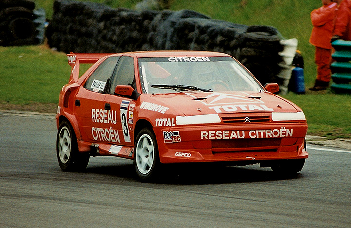 French rallycross driver Jean-Luc Pailler at Brands Hatch in his Citroën Xantia.